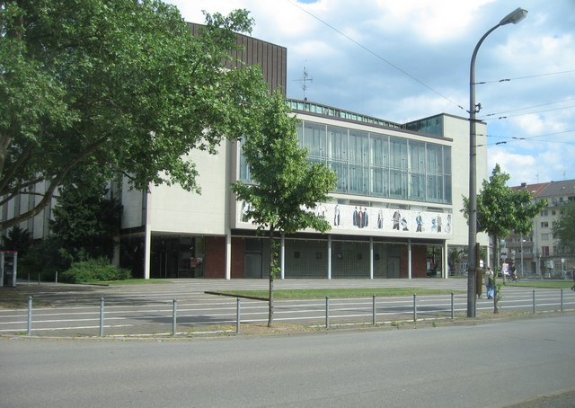 Nationaltheater - Friedriche Ring